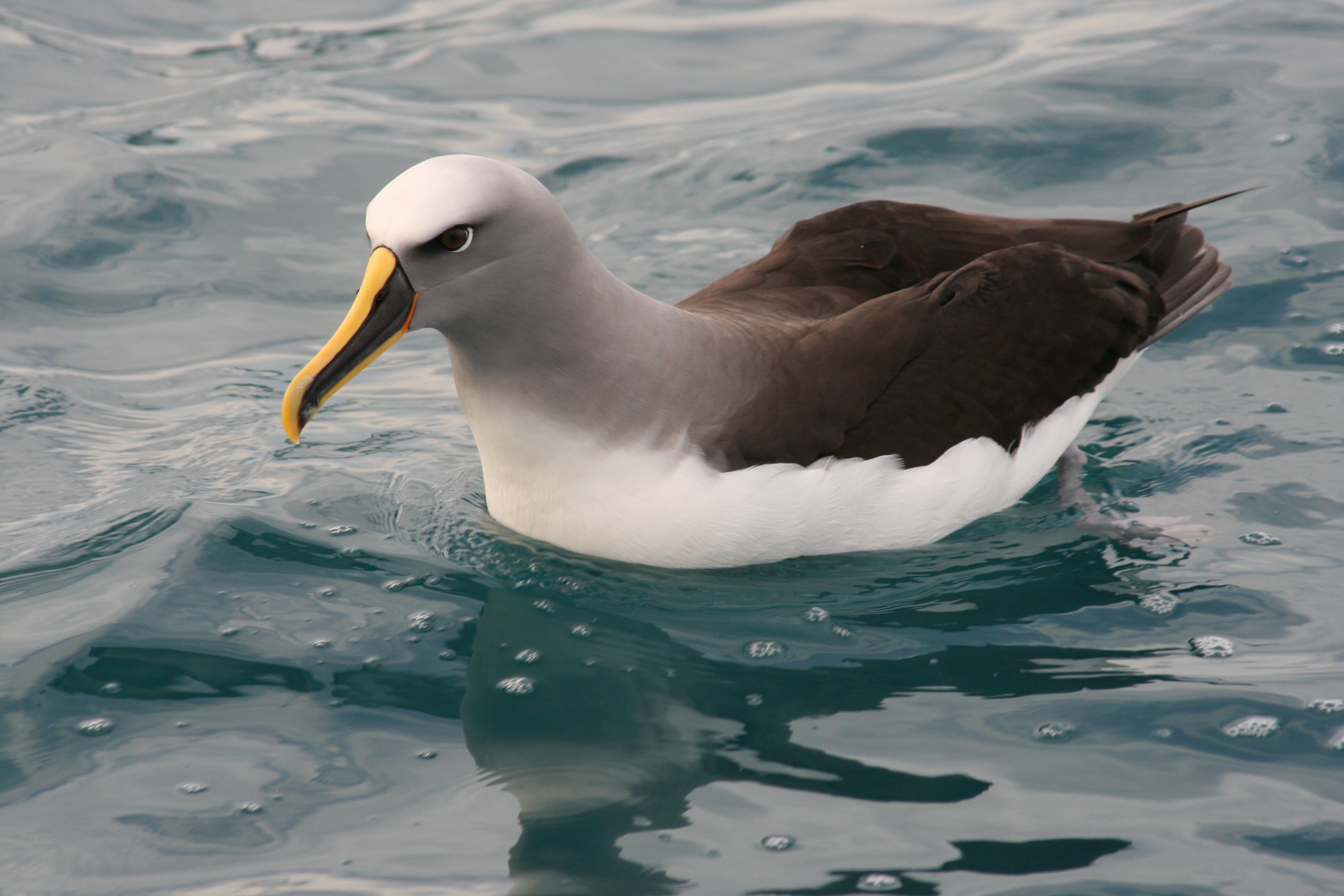 Buller's Albatross or Buller's Mollymawk, Thalassarche bulleri, Kaikoura, New Zealand.